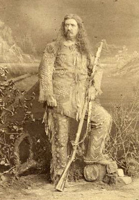 Willoughby Hunter Weiss in The Desert Flower